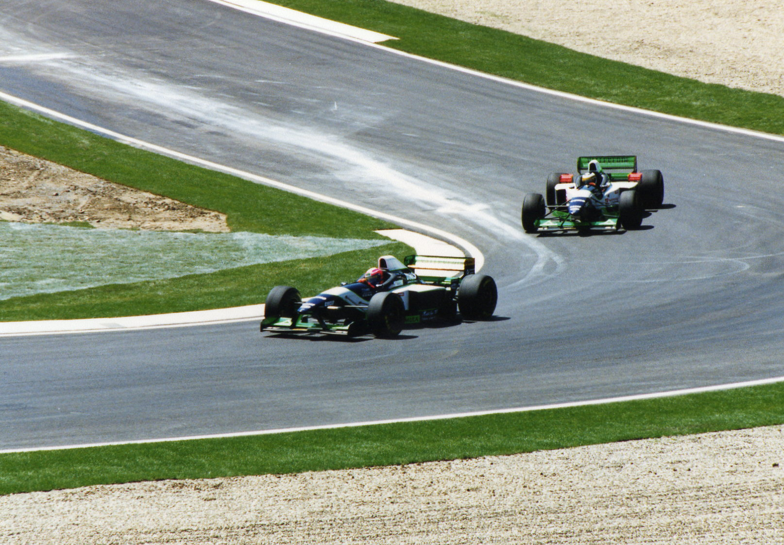 Pedro Lamy and Giancarlo Fisichella during free practice of 1996 San Marino Grand Prix.